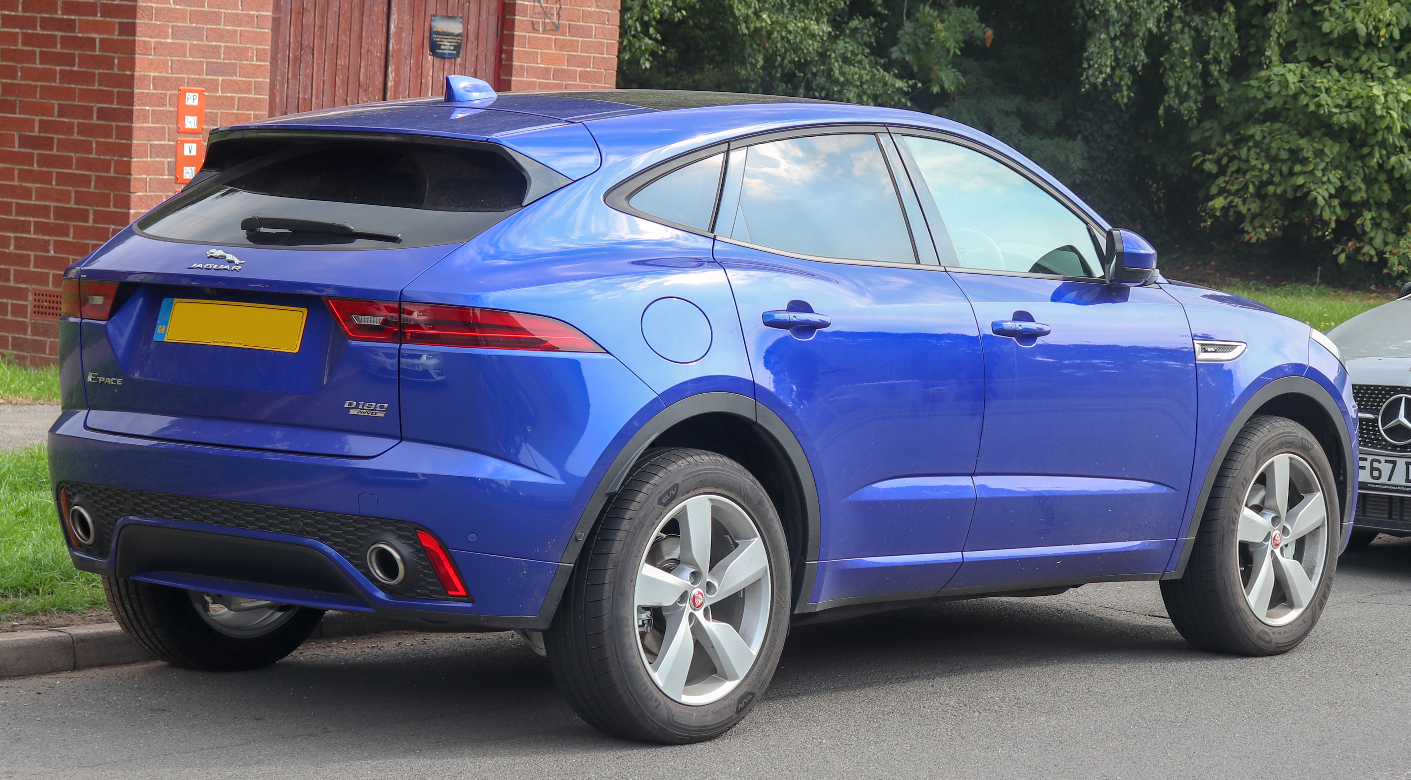 2018 Jaguar E-Pace R-Dynamic SE Diesel AWD 2.0 Rear Taken in Leamington Spa